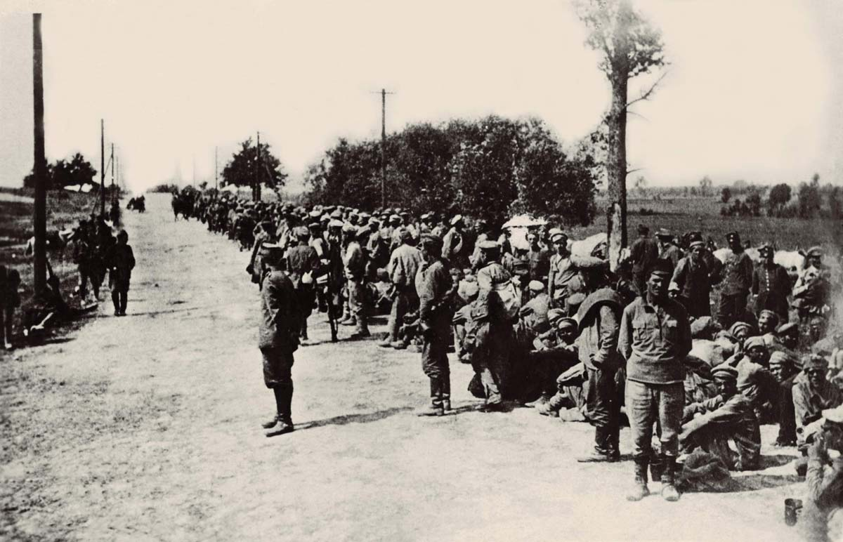 Russian prisoners on the road between Radzymin and Warsaw after the attack of the Red Army on Warsaw